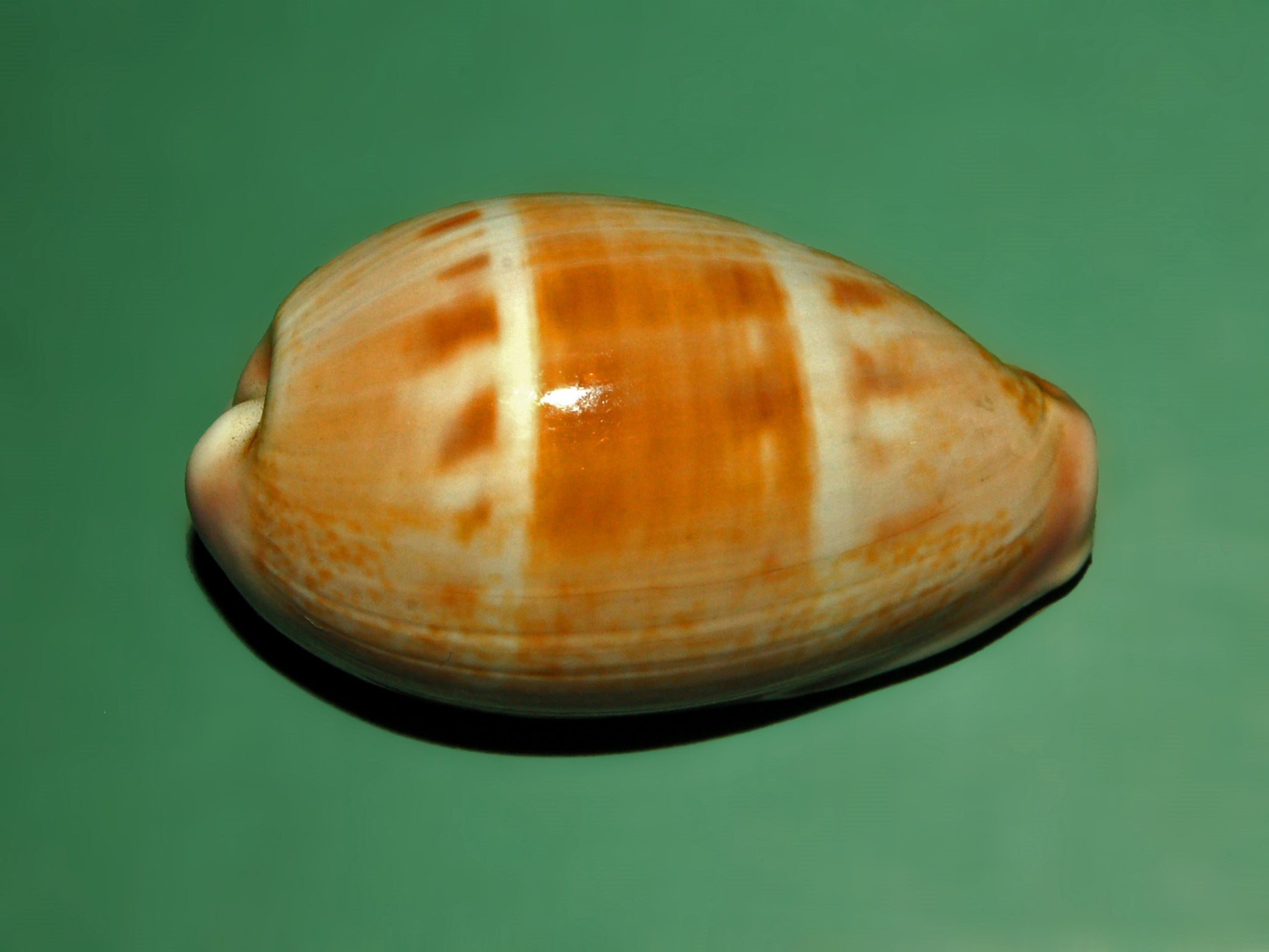 Contradusta walkeri - Philippines